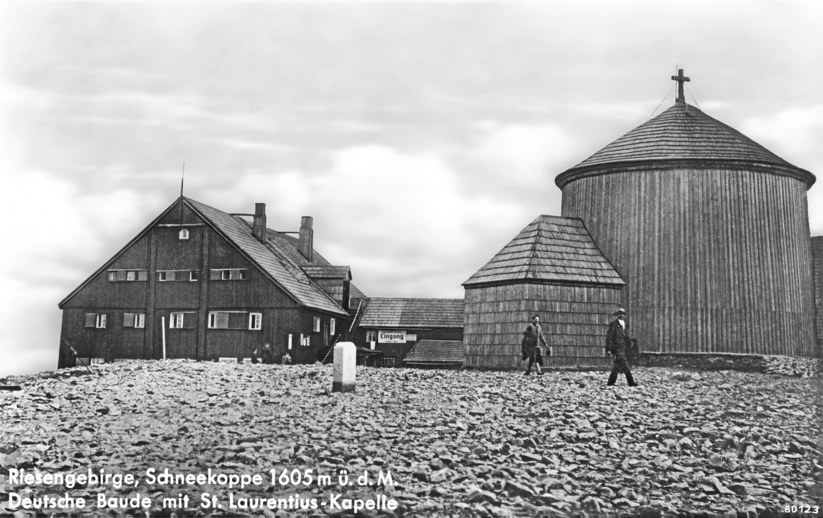 Sniezka, Karkonosze.